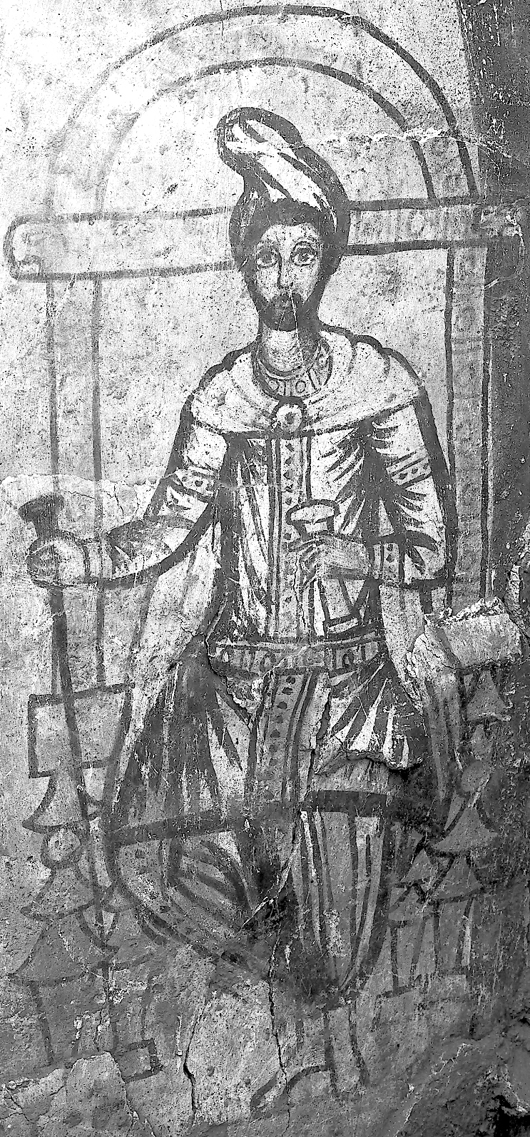 Depiction of the figure on the right (north) side of the arcosolium at the Mithraeum of Dura-Europos, Syria (CIMRM 44.b). The figure is originally sketched (outline only) in red. Similar to the figure on the left side of the arcosolium; in Palmyrene costume, in his right hand he holds a staff, in the left a scroll. In contrast to Cumont, who supposed that this was a depiction of the mythical Ostanes (and that the other figure depicted "Zoroaster"), Rostovtzeff and E.D. Francis rationally identify the figure as a member of the mithraeum's Palmyrene congregation.